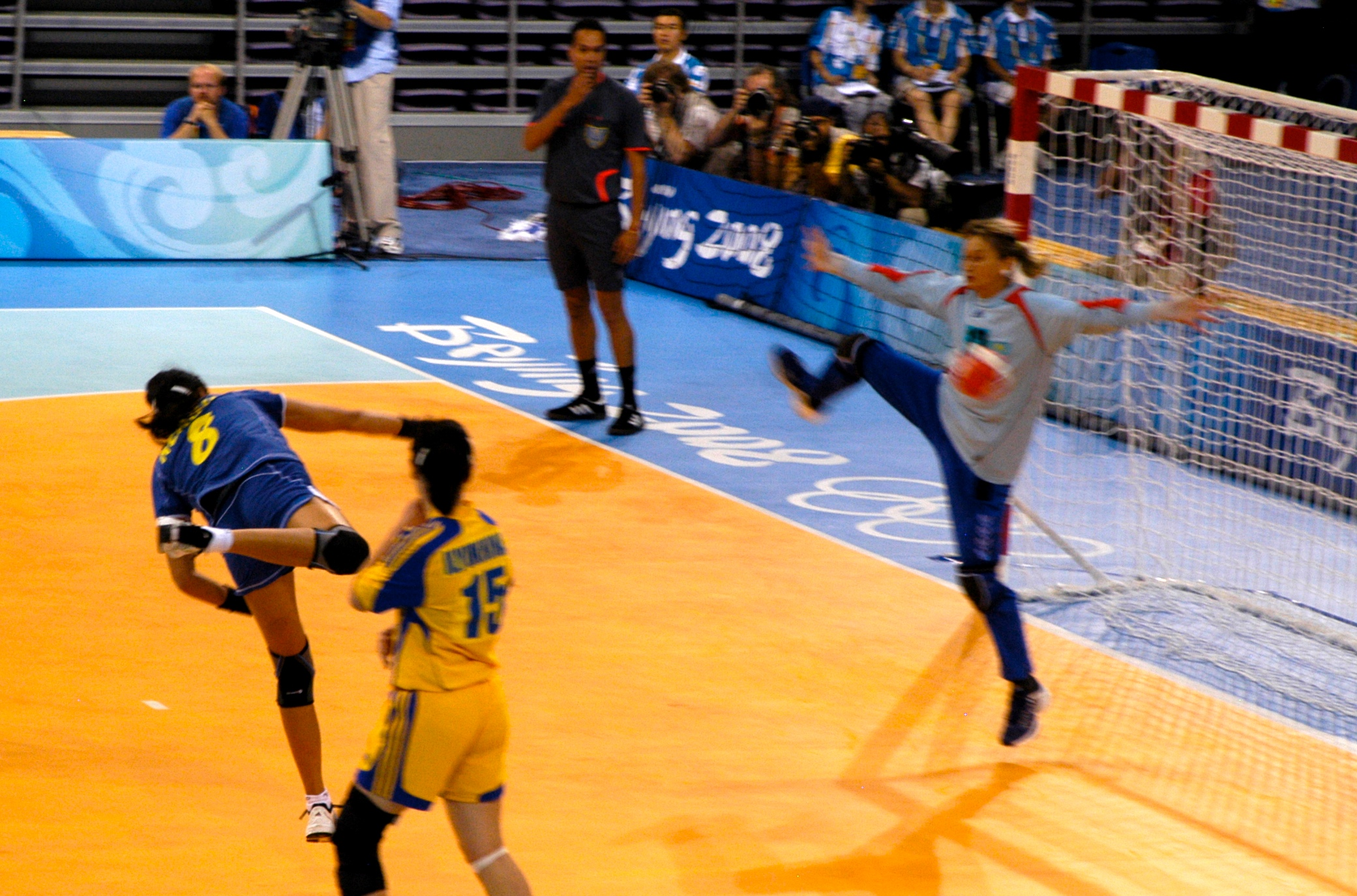 Russia v South Korea competing in the Women's Handball Event. The scoreline was 29-29 and the event took place on August 9, 2008 at the Olympic Sports Centre Gymnasium.